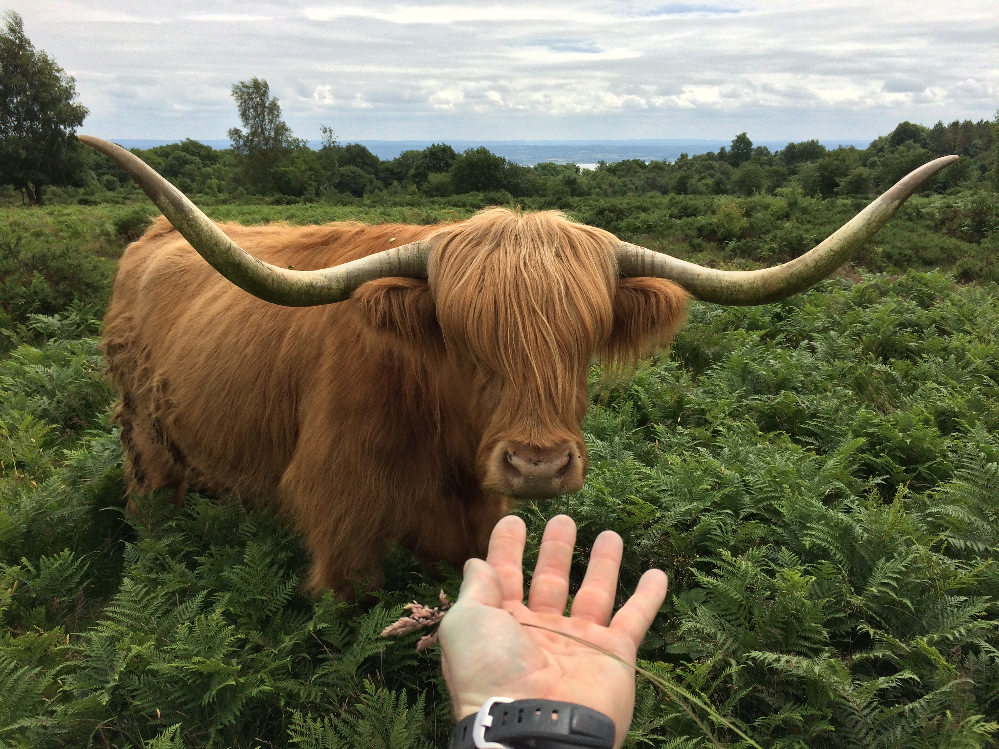 Highland cattle grazing